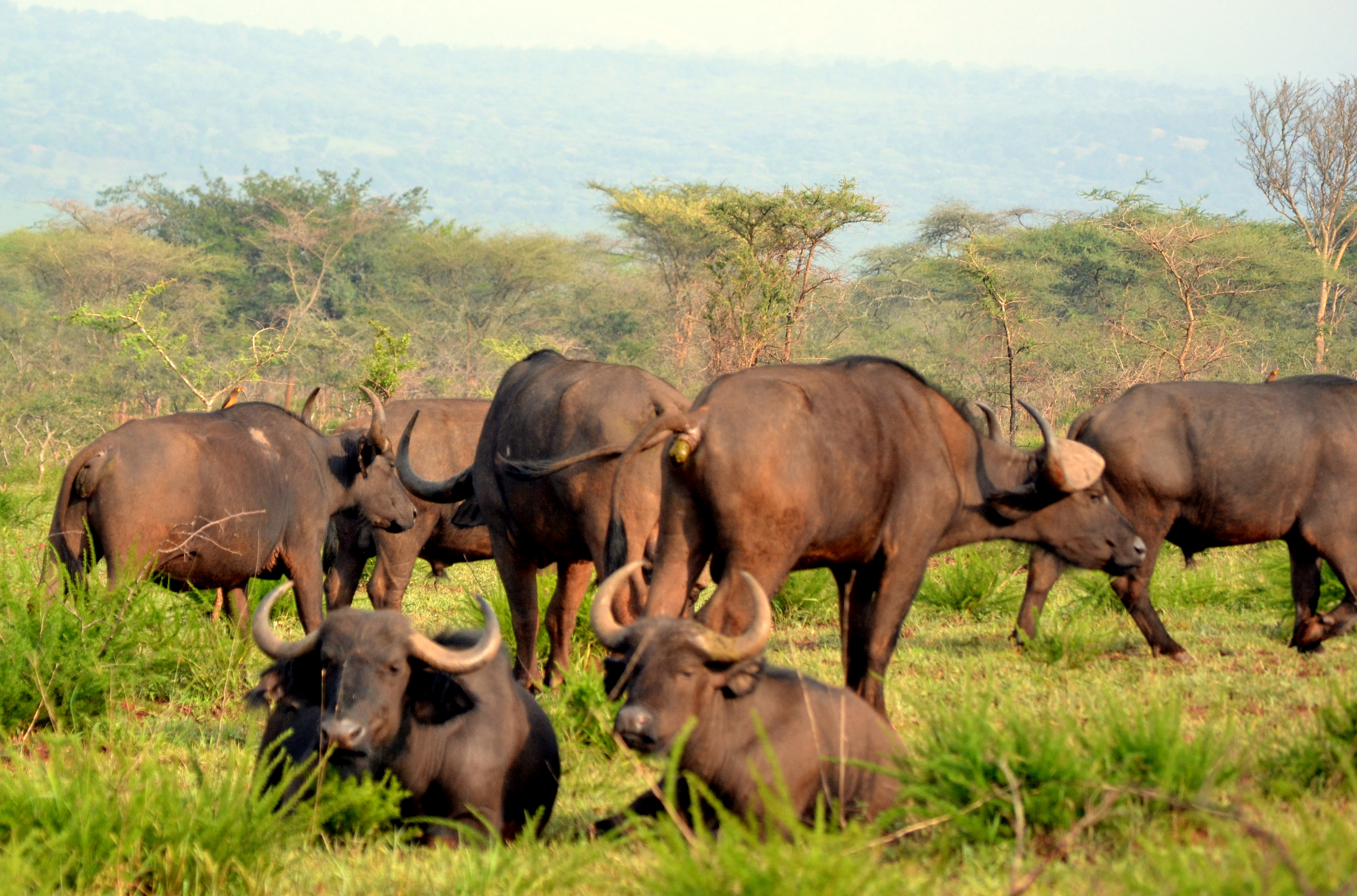 The buffallo party